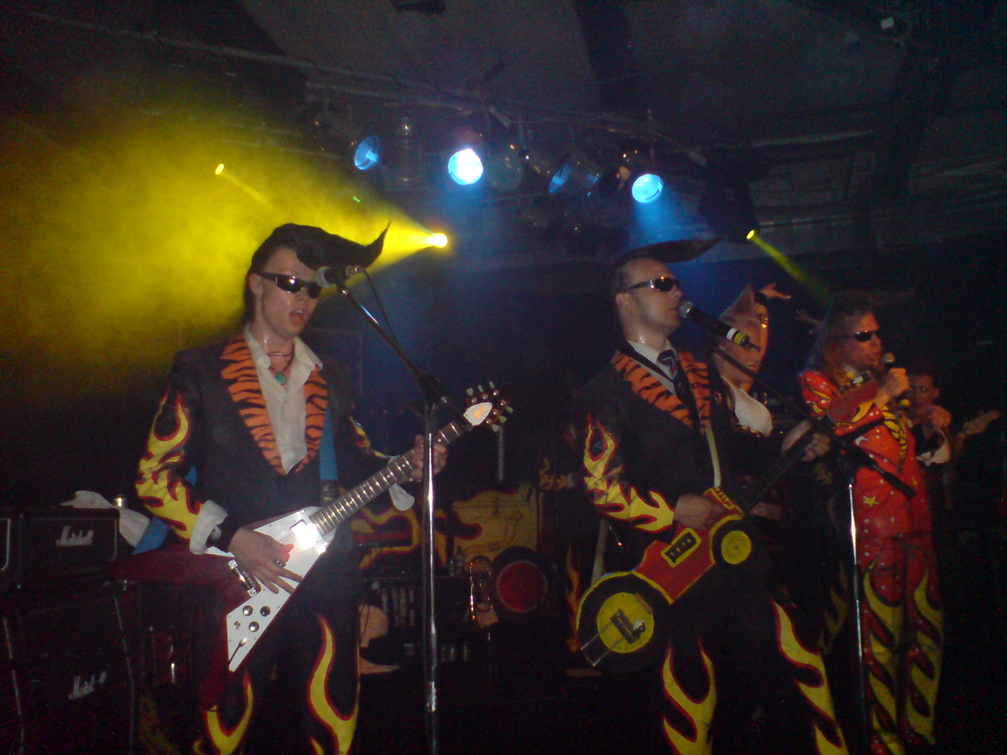 Leningrad Cowboys concert in Ljubljana